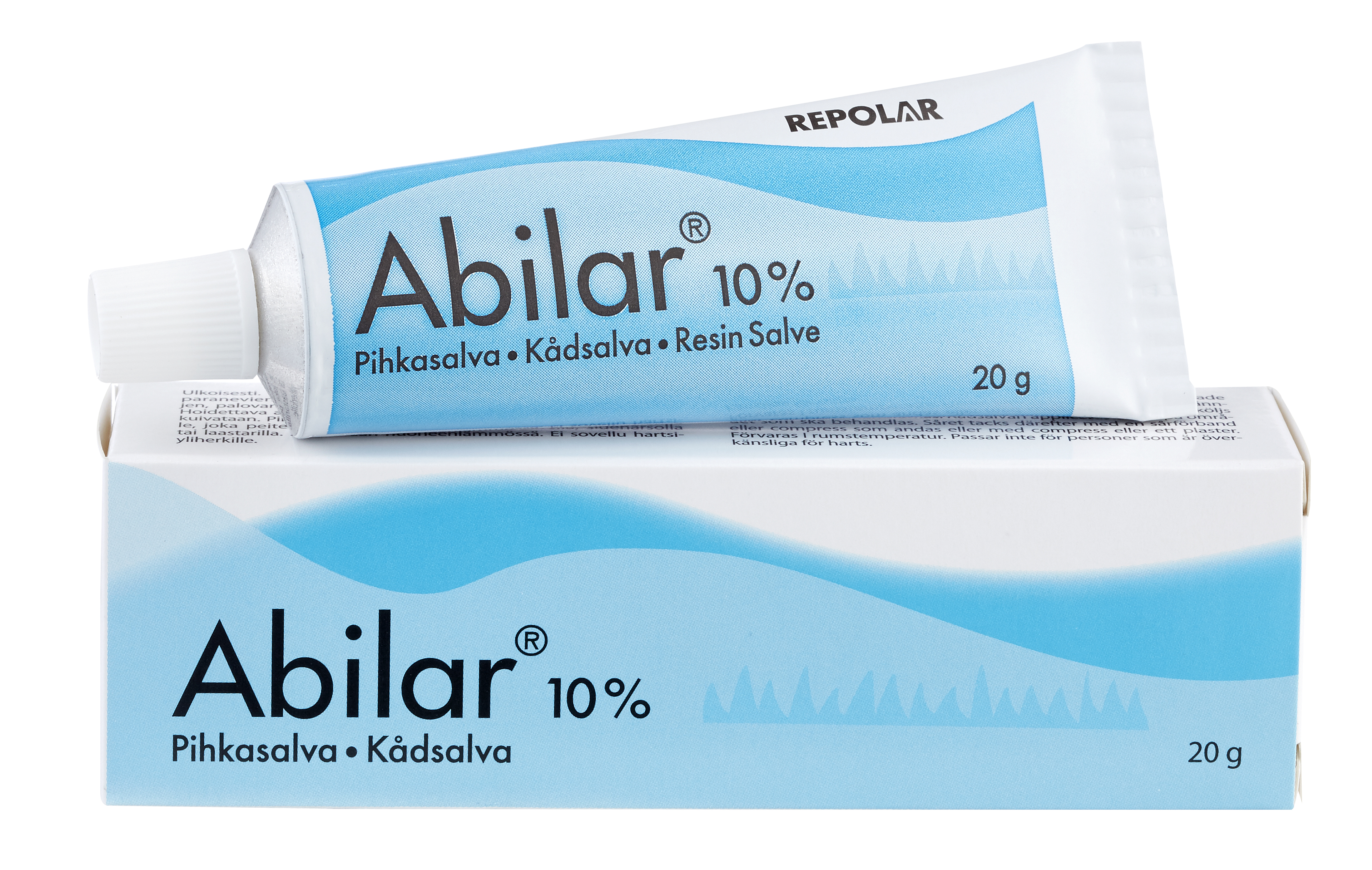 Abilar 10%